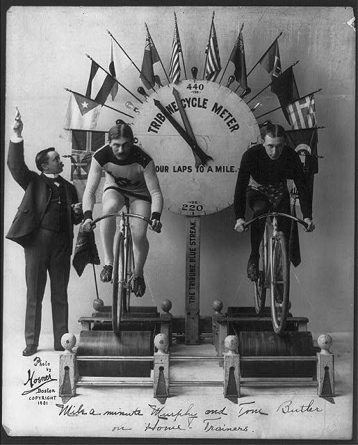 Mile a minute Murphy and Tom Butler on Home-Trainers, c1901. Library of Congress Prints and Photographs Division.